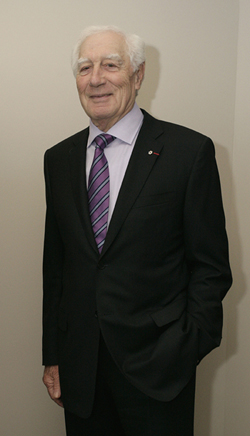 Picture of Mr. Pierre Jean Jeanniot, President and CEO of JINMAG, Director General Emeritus of the International Air Transport Association, and former President and CEO of Air Canada